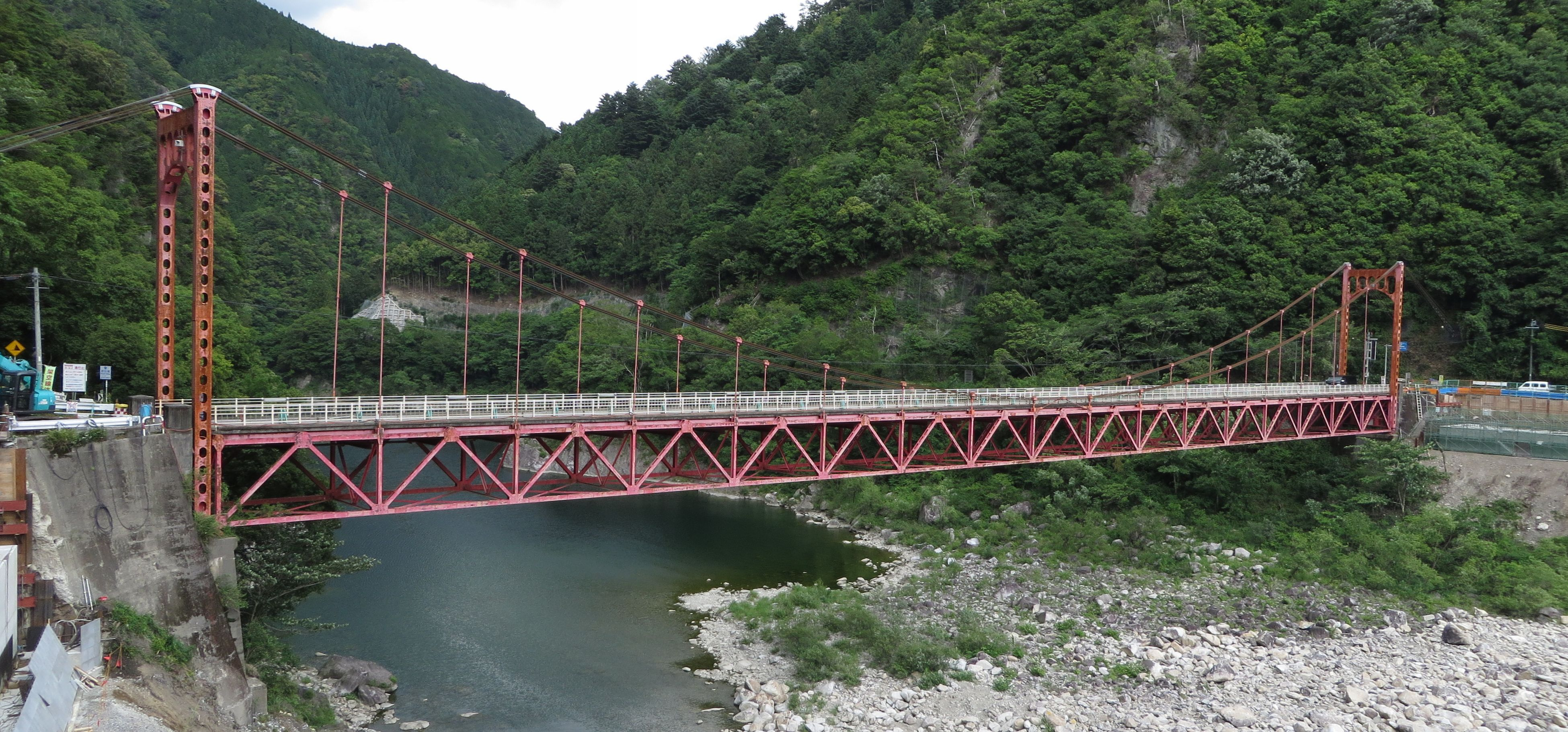 This is a picture of HaradaBashiBridge.(Shizuoka-pref,Japan)